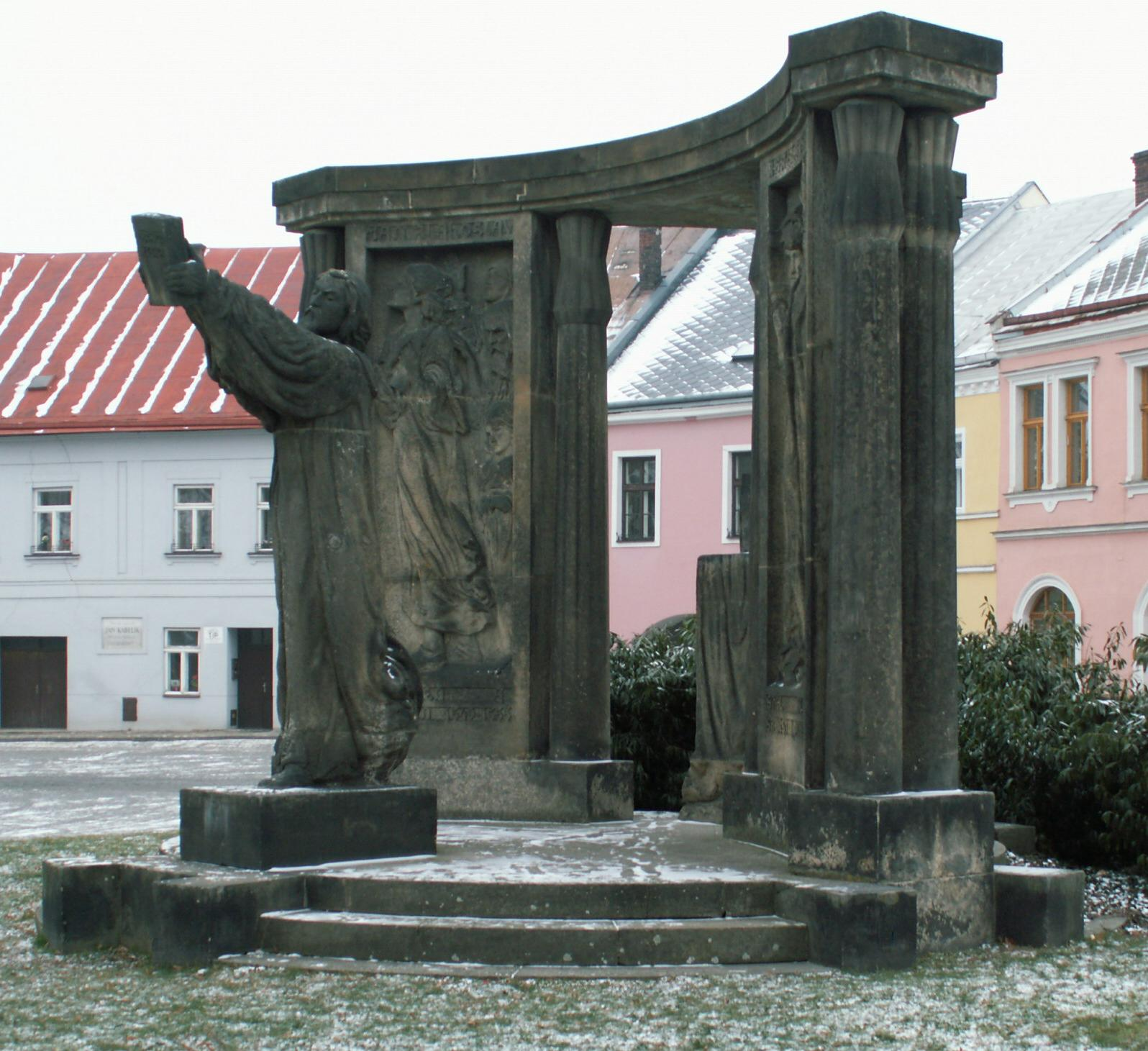 Statue of Jan Blahoslav in Přerov. Work of František Bílek, 1923